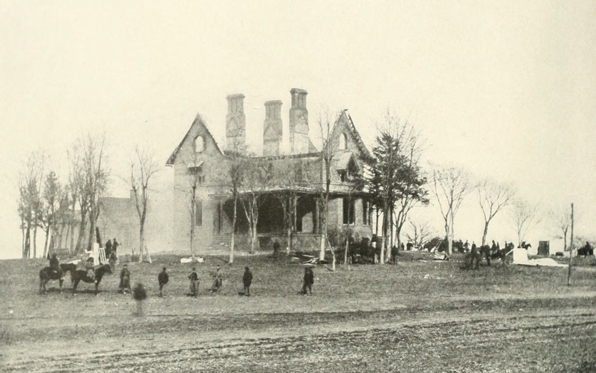 Burnside's headquarters at Phillips' House during the Battle of Fredericksburg. It was here that his staff generals dissuaded him from carrying on any more assaults.